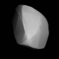 3D convex shape model of 767 Bondia, computed using light curve inversion techniques. J. Hanuš, J. Ďurech, M. Brož, B. D. Warner (June 2011). "A study of asteroid pole-latitude distribution based on an extended set of shape models derived by the lightcurve inversion method". Astronomy and Astrophysics 530: A134. ISSN 0004-6361. arXiv